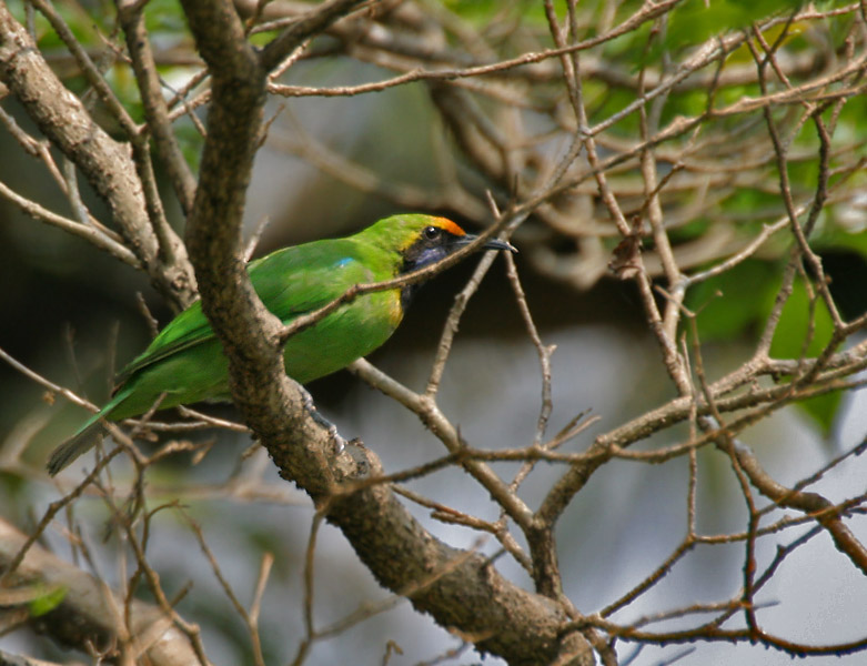 Golden-fronted Leafbird Chloropsis aurifrons at Jayanti in Buxa Tiger Reserve in Jalpaiguri district of West Bengal, India.